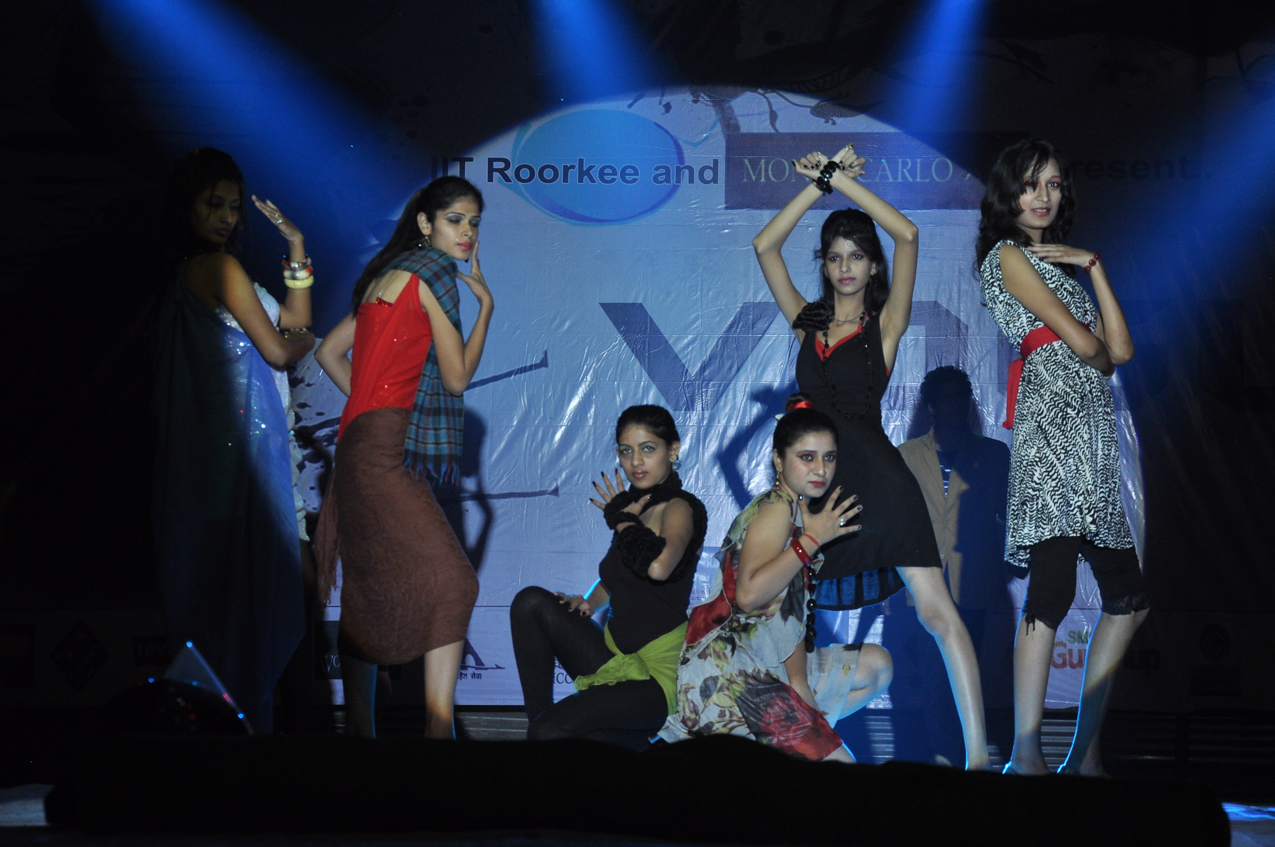 Vogue- The Fashion Parade